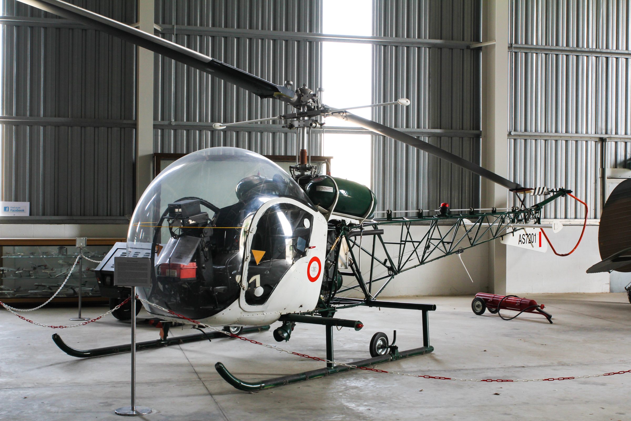 Armed Forces of Malta Agusta Bell 47G-2 AS7201 at the Malta Aviation Museum